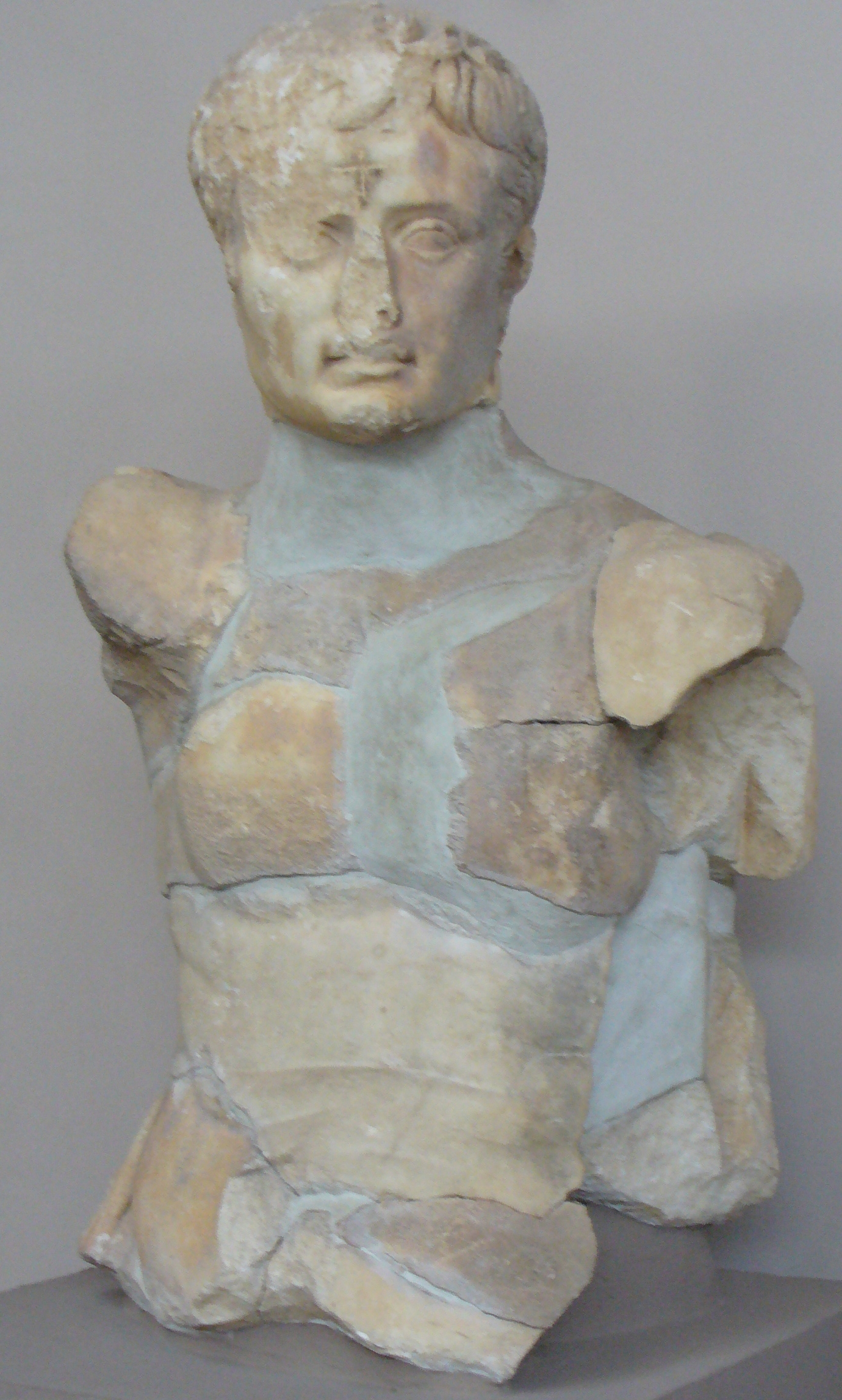 Photograph of a cult statue of the deified Augustus. The statue, at the Ephesus museum in Selçuk, Turkey, was disfigured by Christians: a cross has been roughly carved into Augustus' forehead.